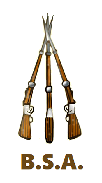 Early BSA trademark (Birmingham Small Arms Company)